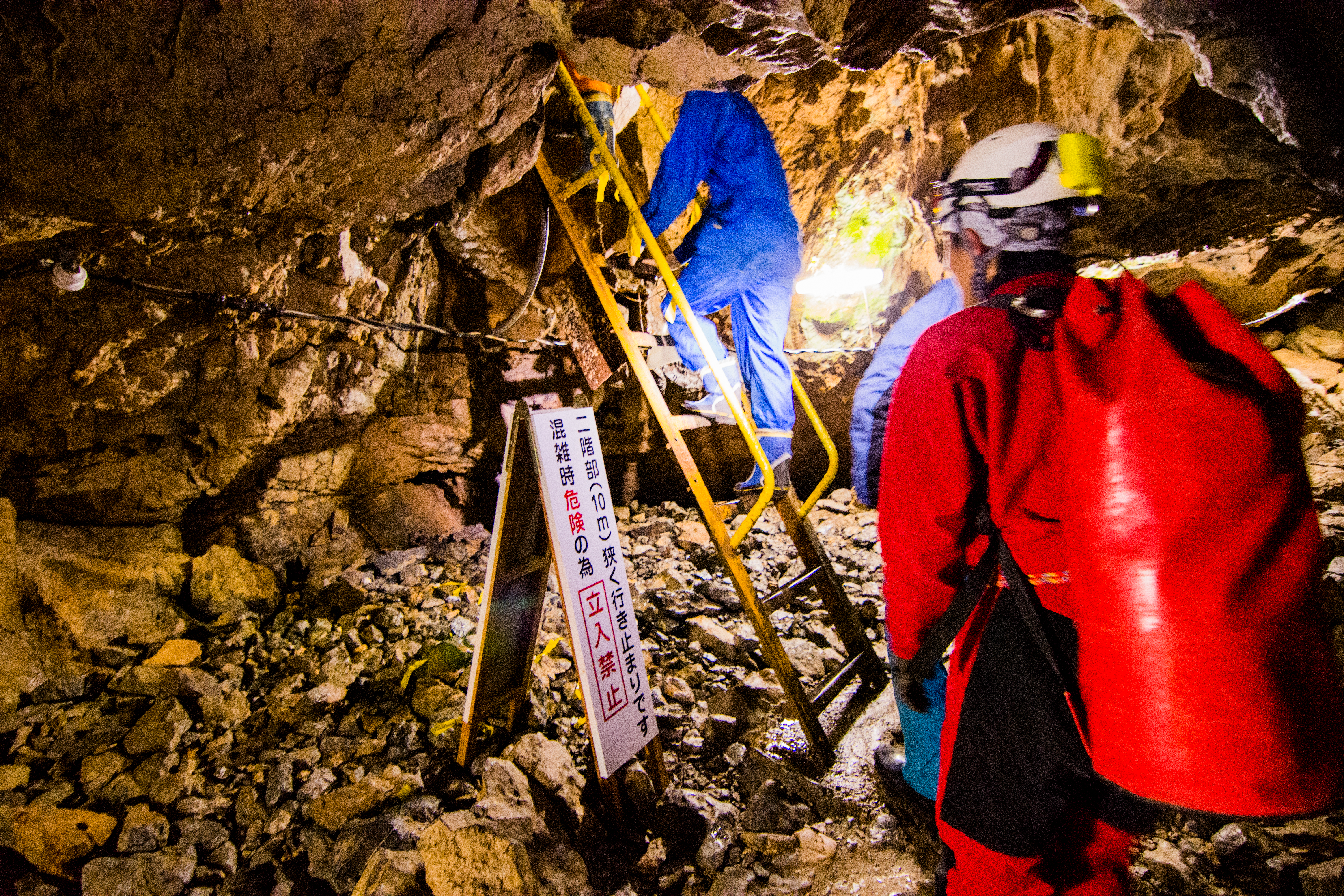 Stairs leading up to the second floor at the Kawachi no Kaza-ana (show cave area).